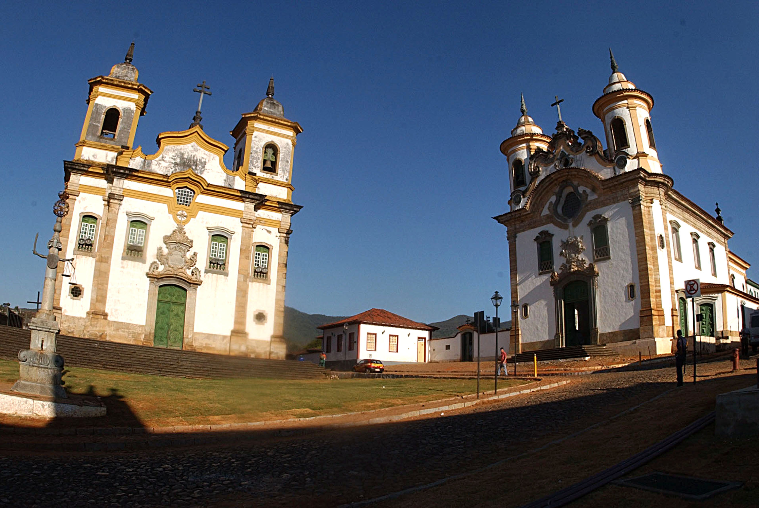 Churches in the town of Mariana, Minas Gerais, Brazil.